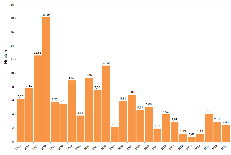 Area covered by monarchs (Danaus plexippus, eastern migratory population) in their overwintering areas in Mexico between 1993 and 2018. Data origin from the World Wildlife Fund-Mexico. Made with Libre Office Calc